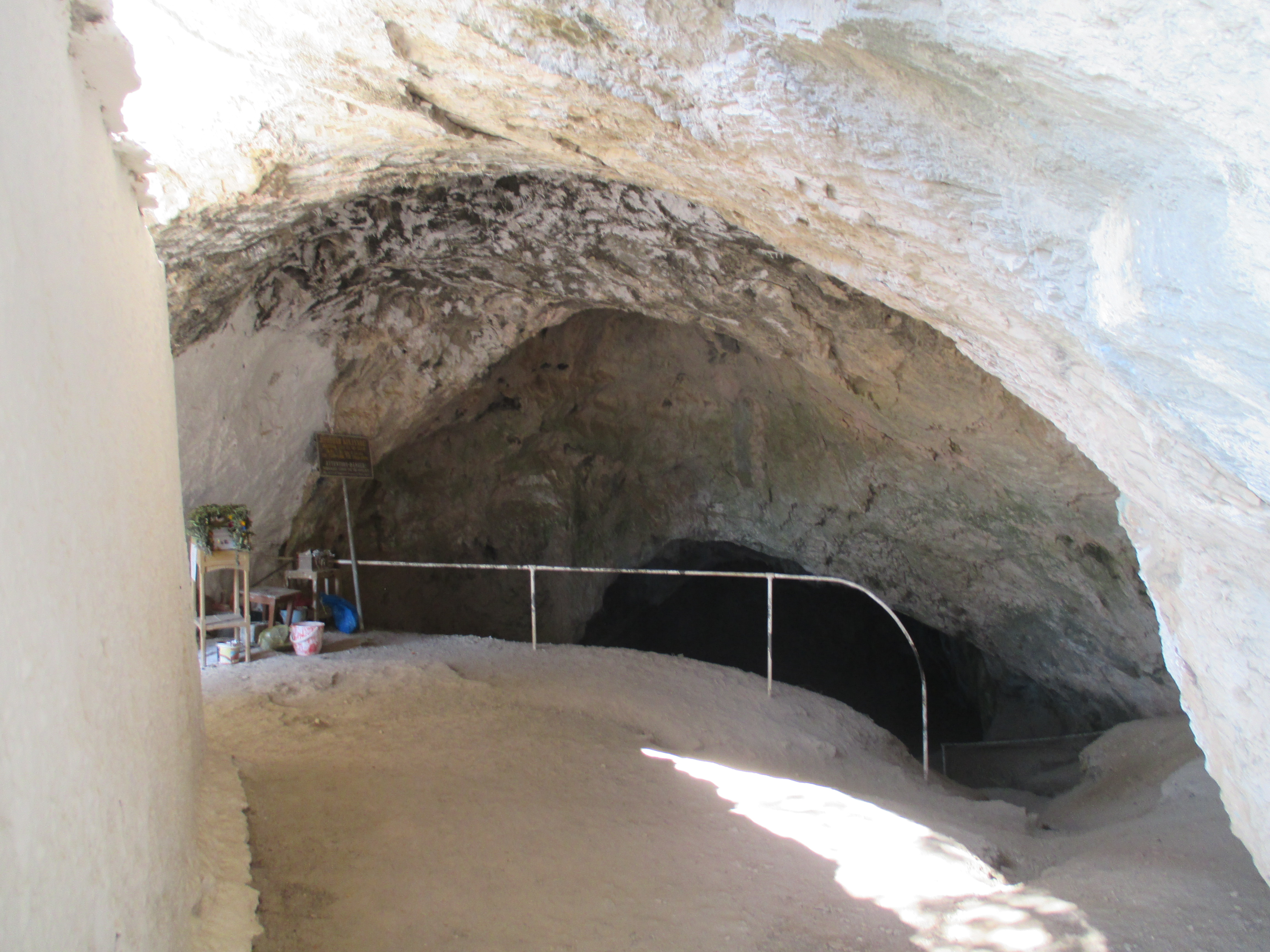 Larger cave behind the Panagia Sarantaskaliotissa church near Pythagoras Cave, Mount Kerkis, Samos, Greece. Note: This cave is not the "real" Pythagoras Cave, which is located a bit lower.